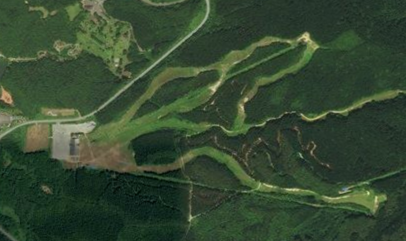 Satellite view